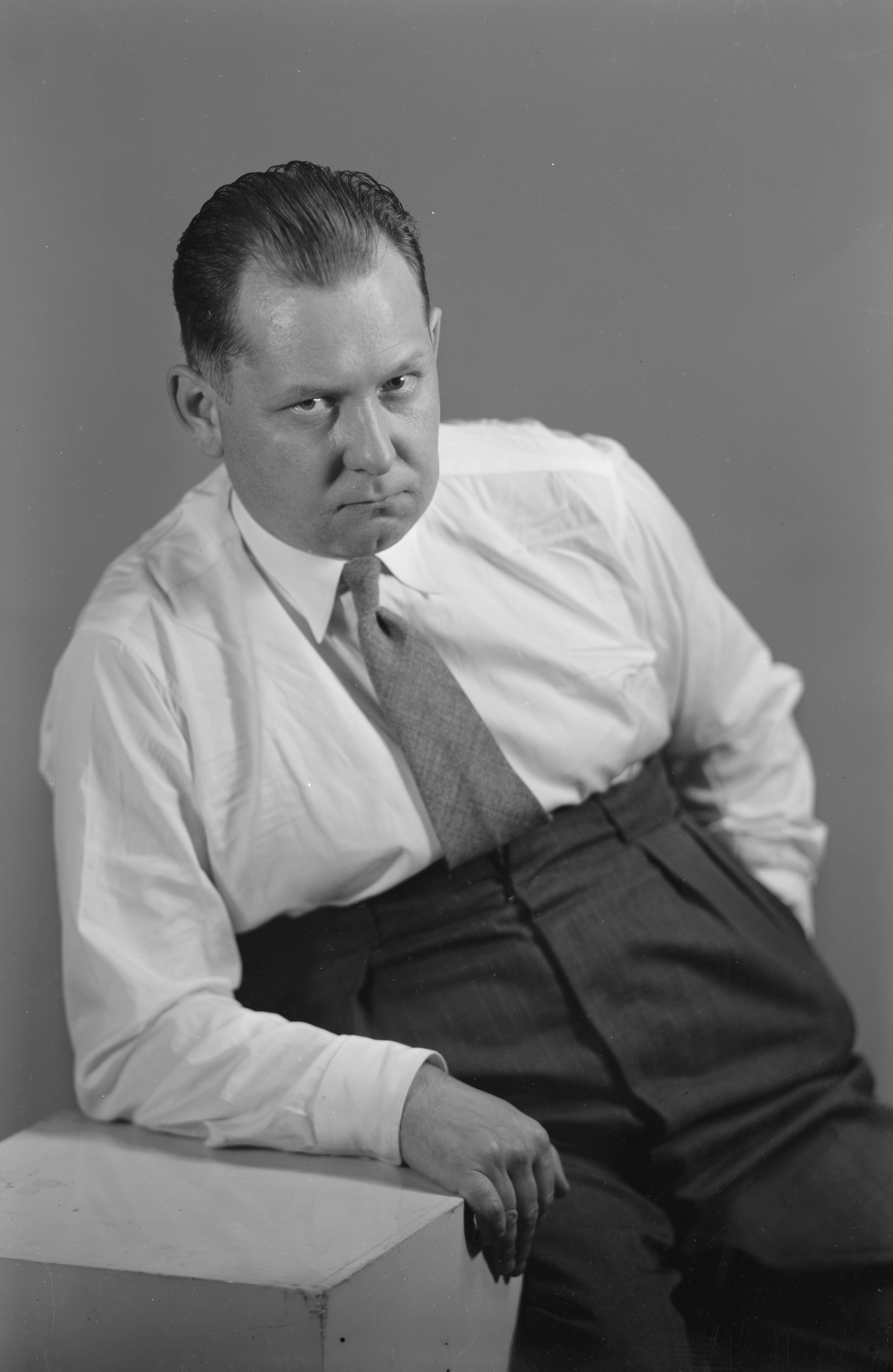 Photograph of the Finnish writer and journalist Jaakko Leppo (1902–).